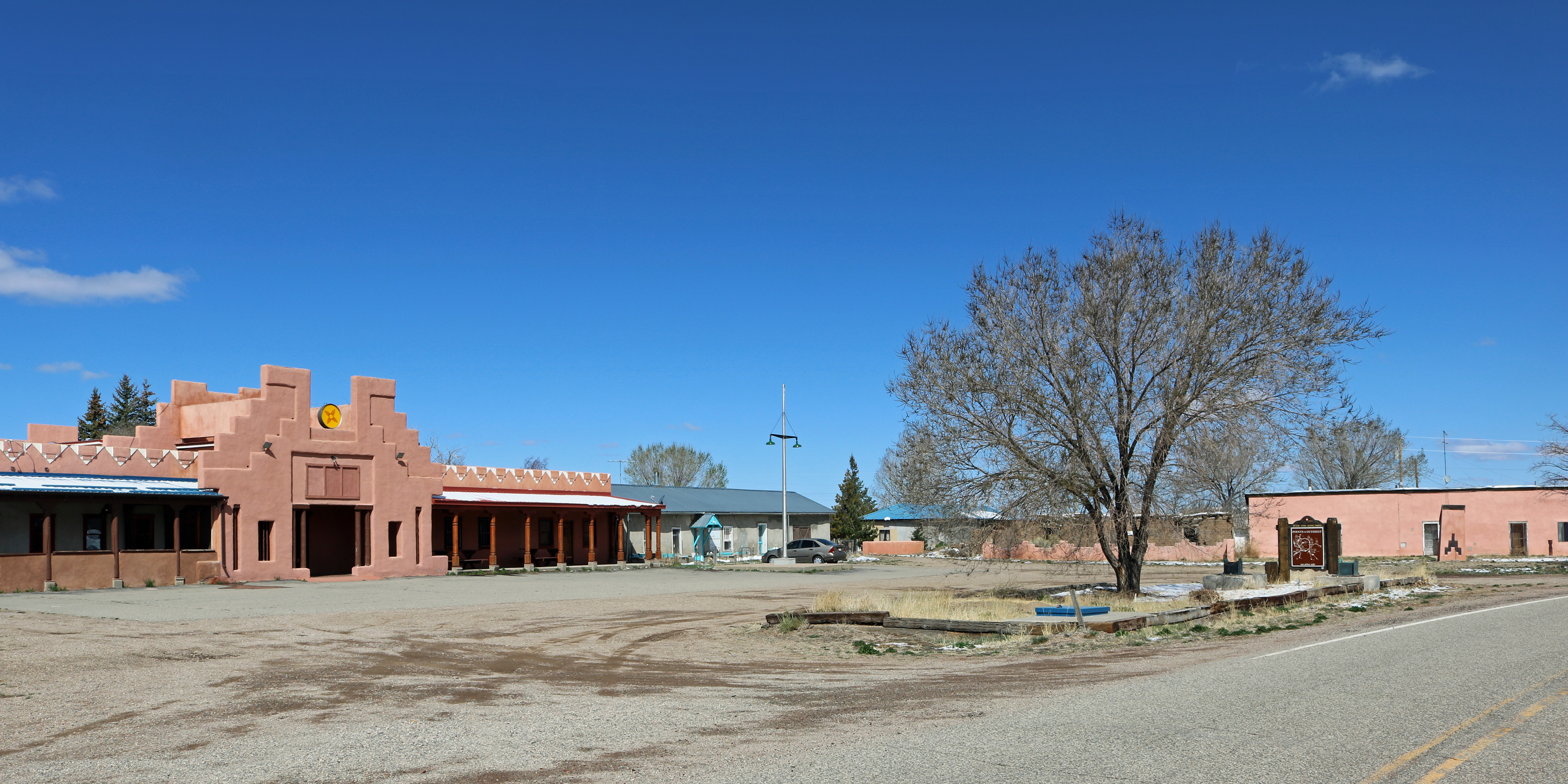 La Plaza de Arriba in Costilla, New Mexico. The road in the picture is New Mexico State Highway 196. Costilla is in Taos County.